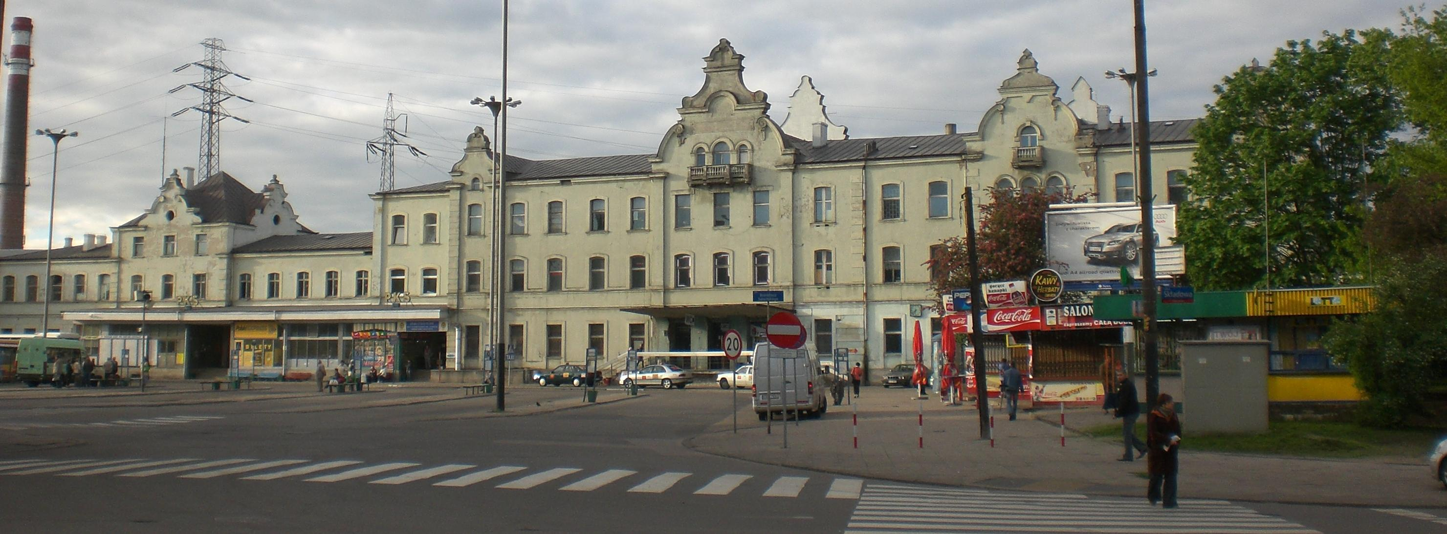 Train station Łódź Fabryczna (cropped)